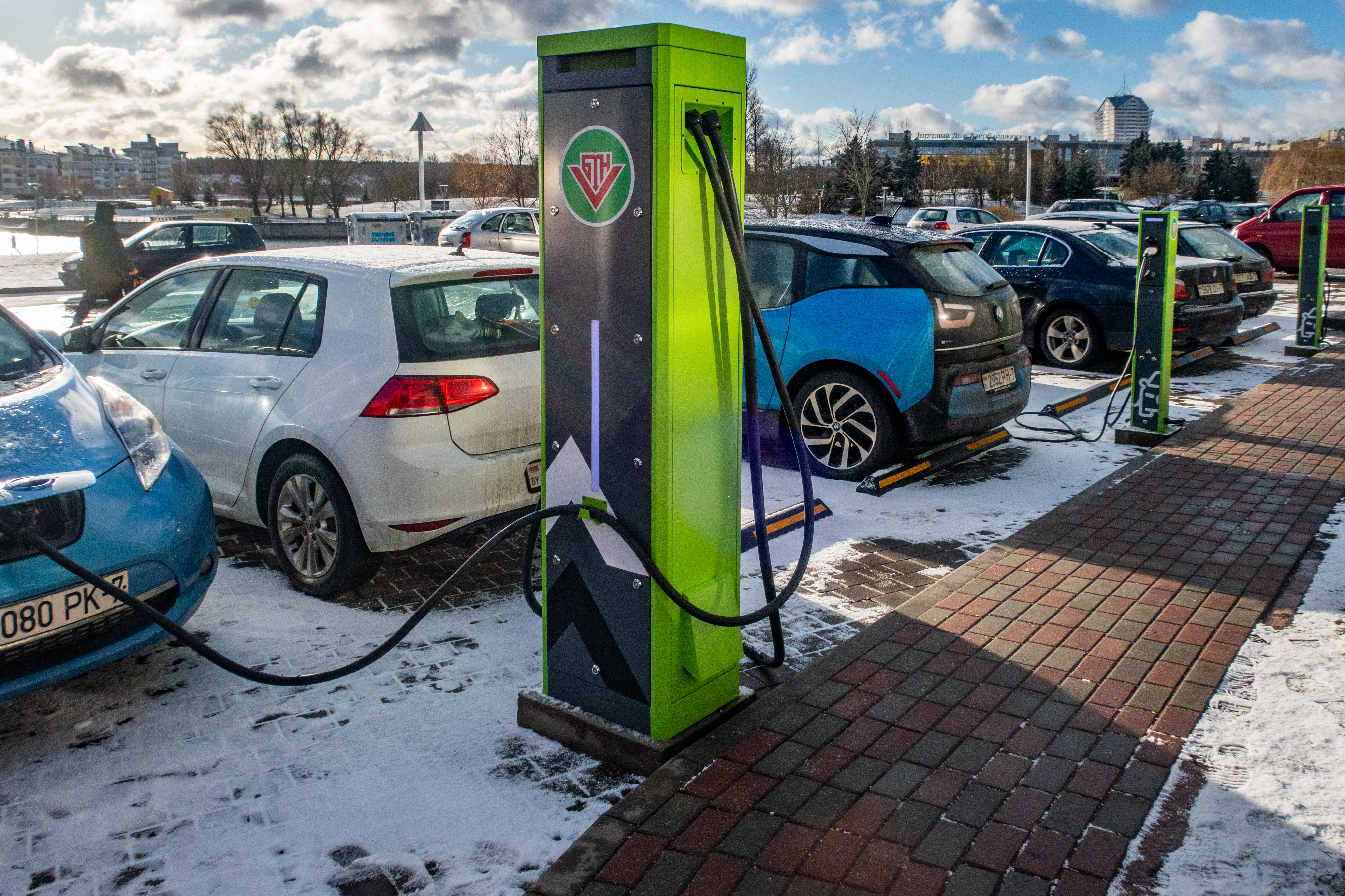 Electric cars charging in Minsk, Belarus